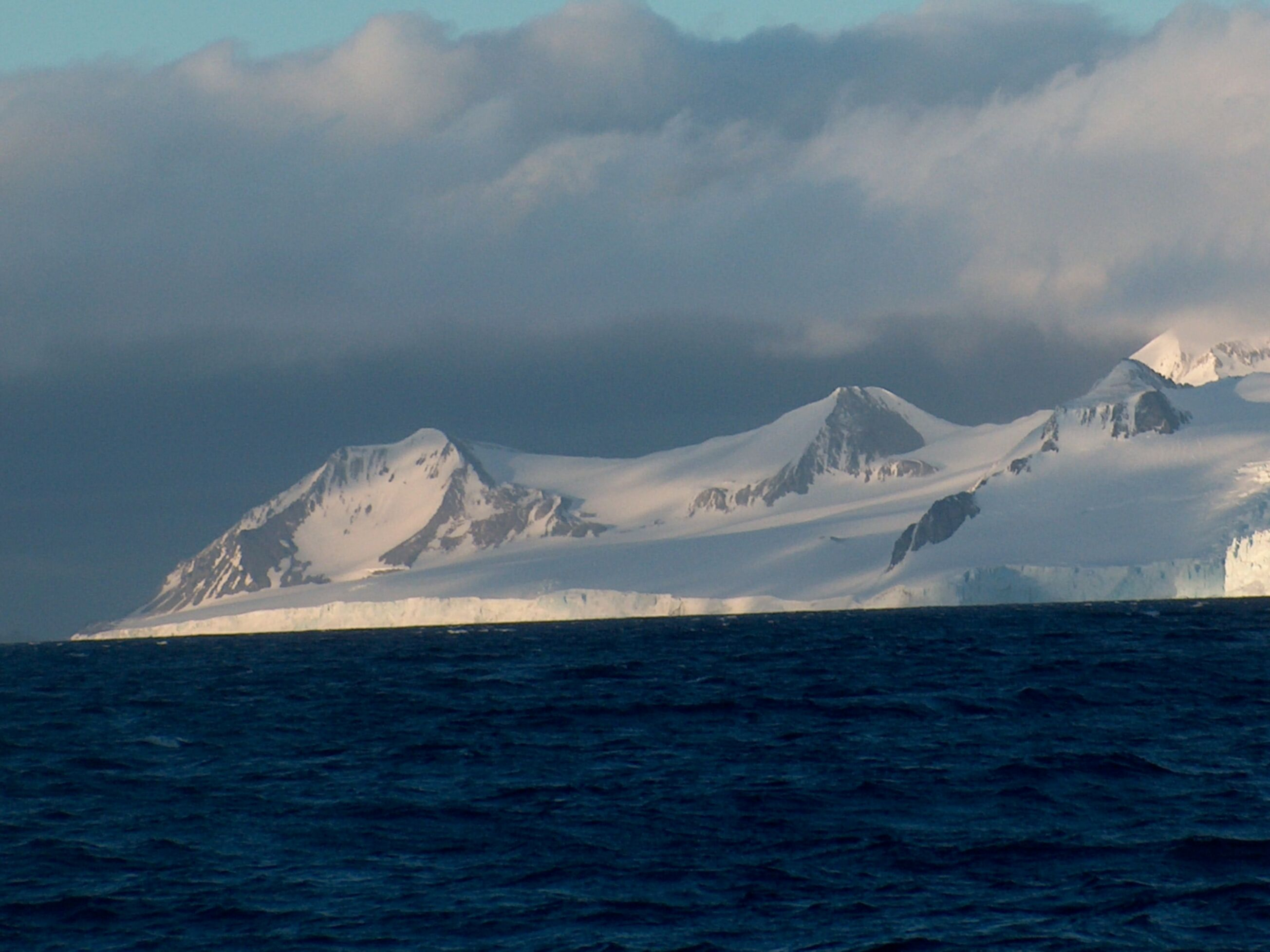 Tarnovo Ice Piedmont. Both pictures image:Tarnovo-Livingston.jpg and image:kuzman.jpg are sourced source-Lyubomir Ivanov but the latter should not appear also as a thumbnail at the location of the former. Apcbg 10:34, 29 March 2006 (UTC) This is the source of the picture -- please do not remove it. Apcbg 11:47, 5 April 2006 (UTC)